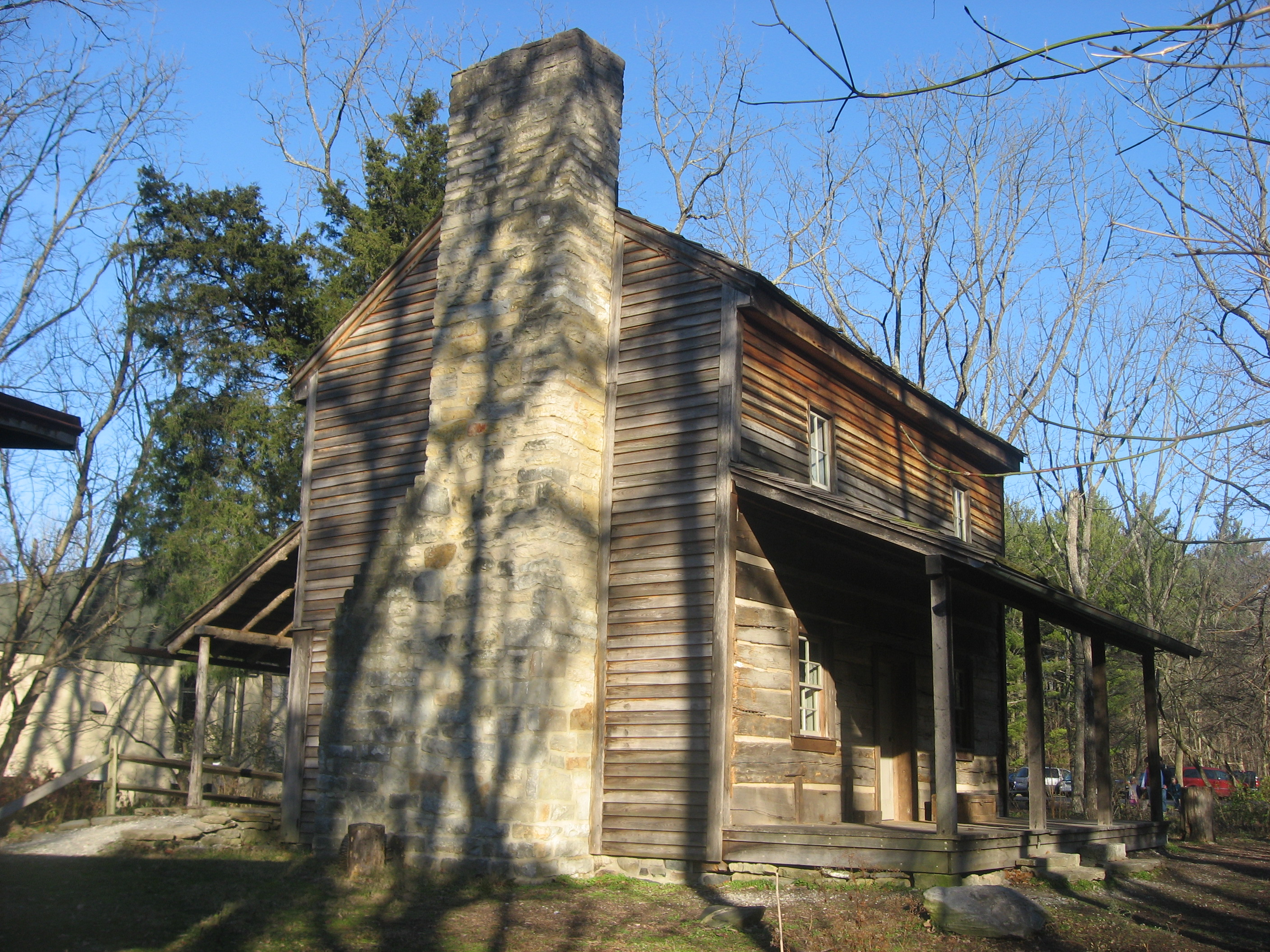 Western end and southern side of the Benjamin Iddings Log House, located on the grounds of the Brukner Nature Center west of Troy in Newton Township, Miami County, Ohio, United States. Built in 1797, it is listed on the National Register of Historic Places.